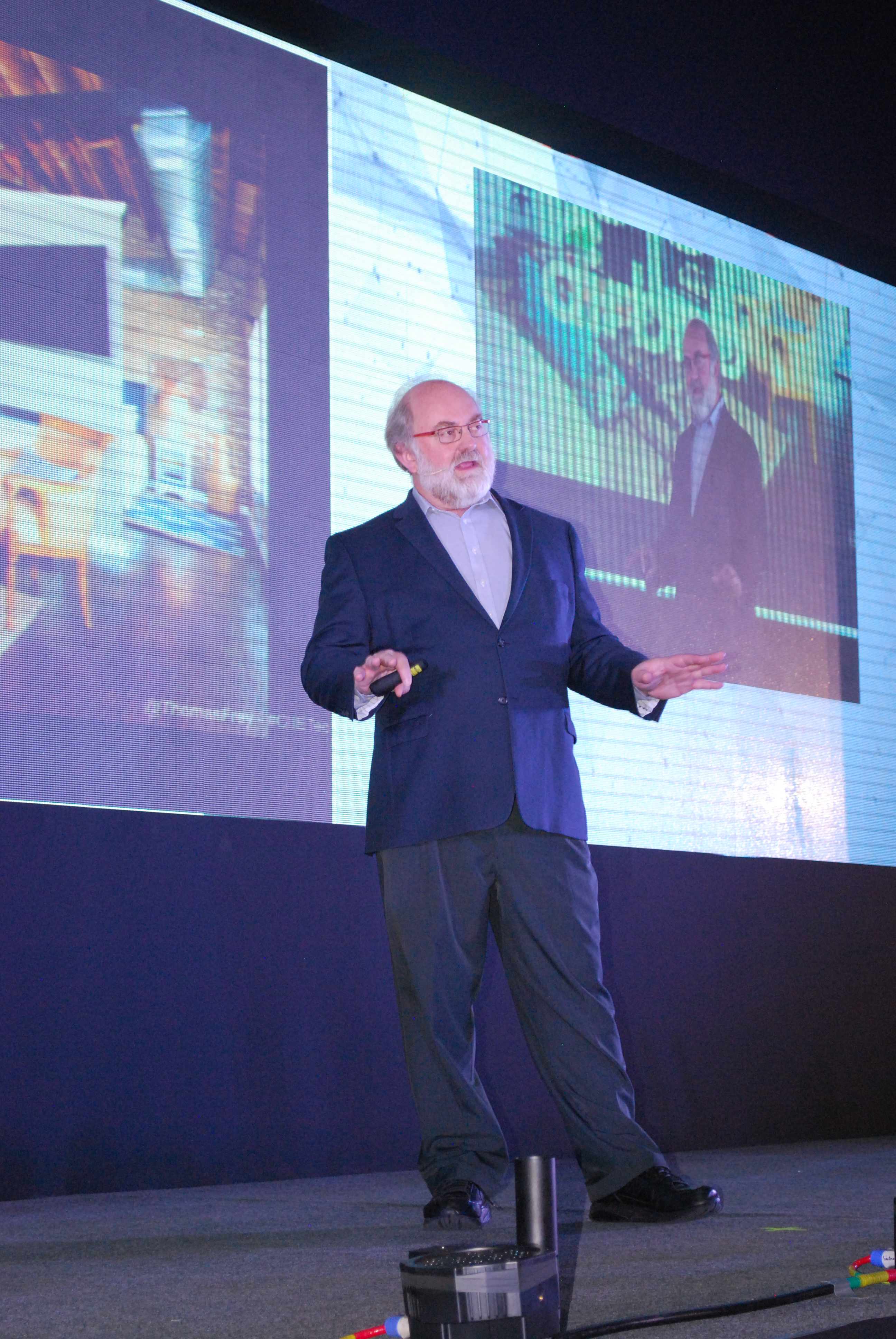 Futurist Thomas Frey speaking at the 2nd Congress of Educational Innovation at Tec de Monterrey, Campus Ciudad de Mexico